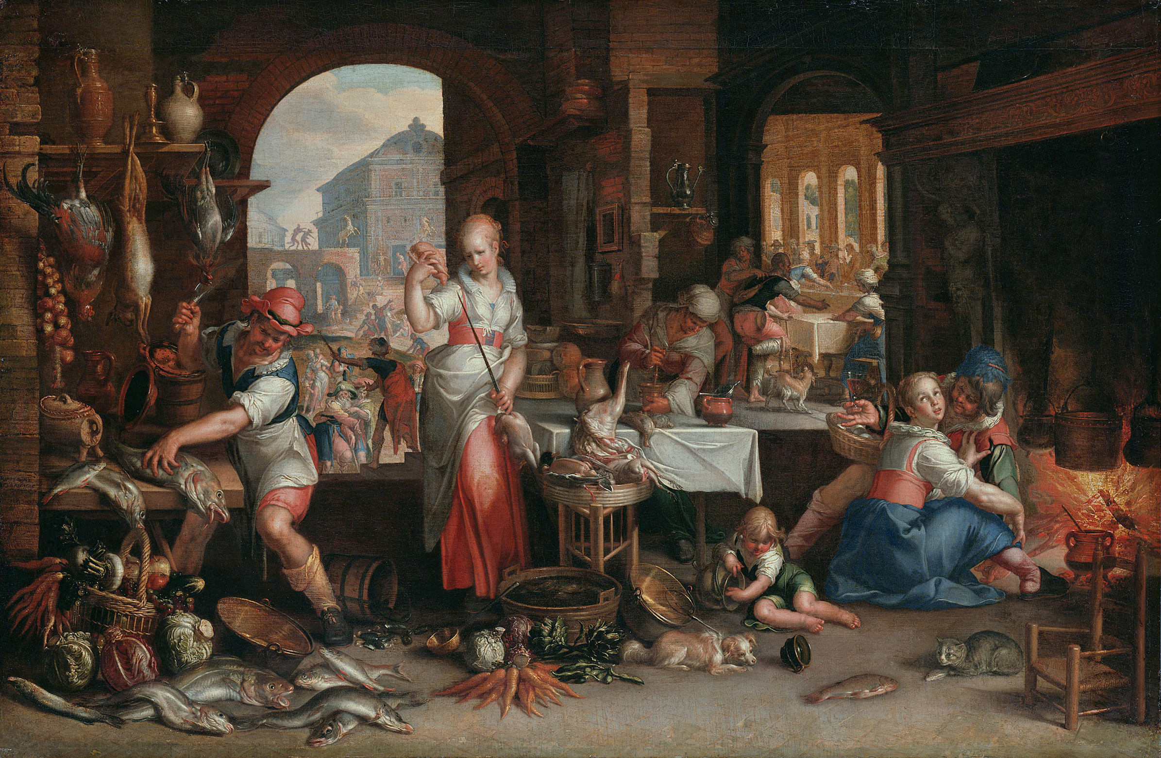 Kitchen interior with the parable of the great supper oil on canvas 65 x 98 cm signed c.l: W.TE.WAEL / Fecit. ANo.1605